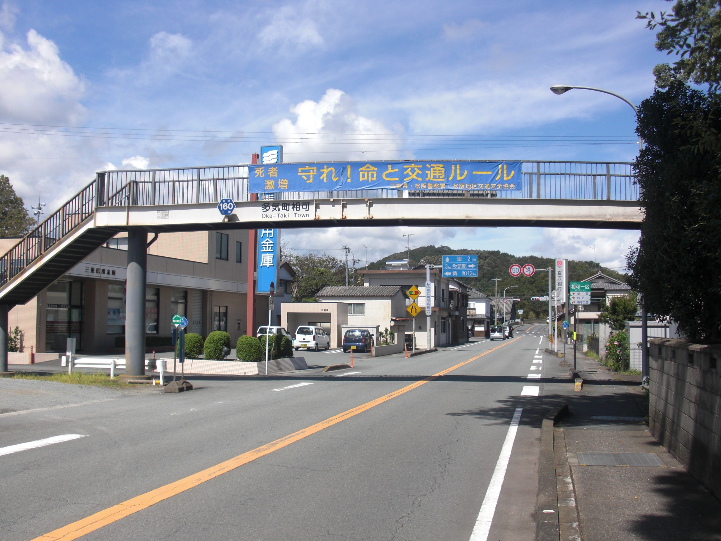 This is one scene of the Mie prefectural road No.160 Taki Hatta Line in Oka, Taki, Mie, Japan.